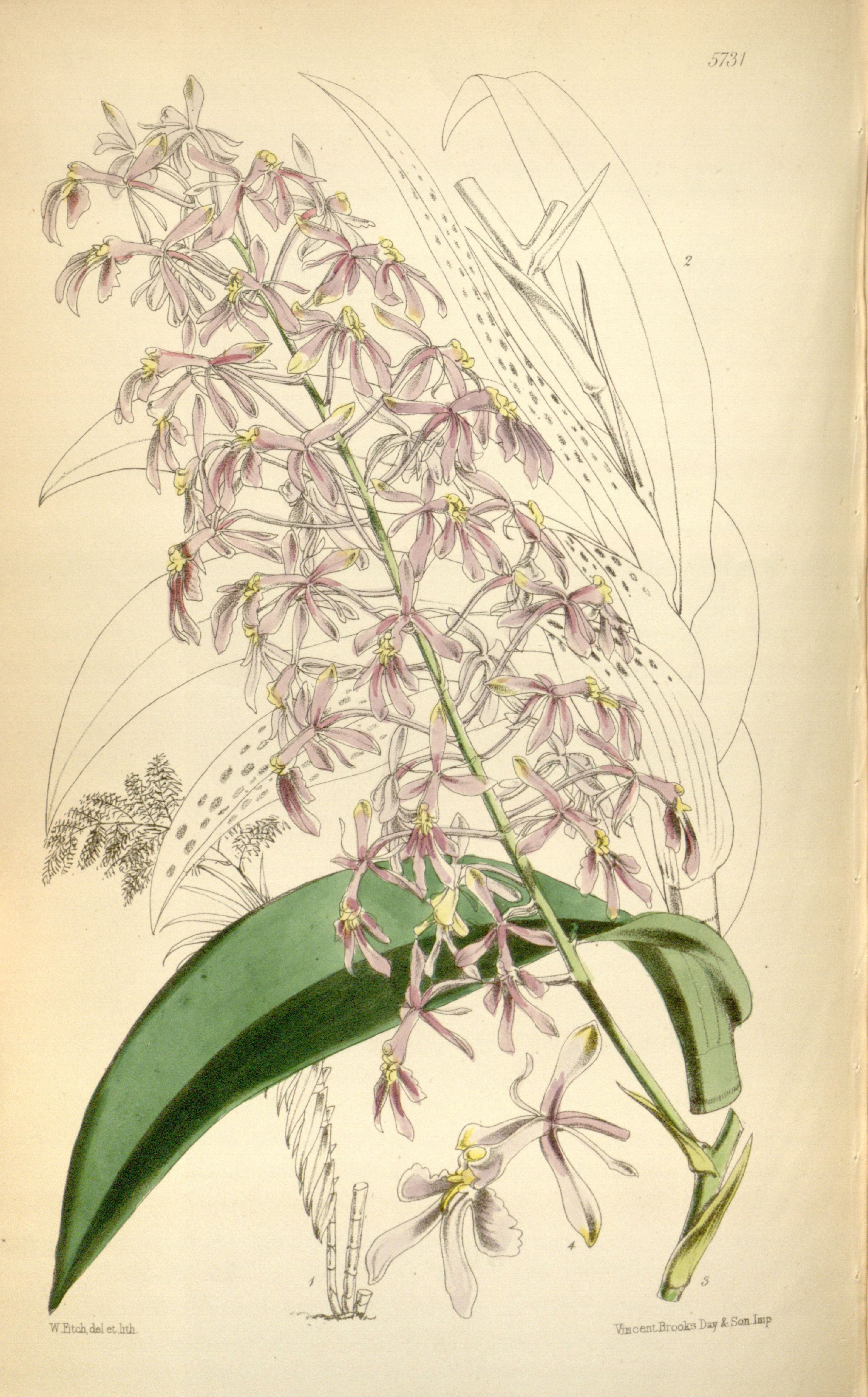 Illustration of Epidendrum paniculatum